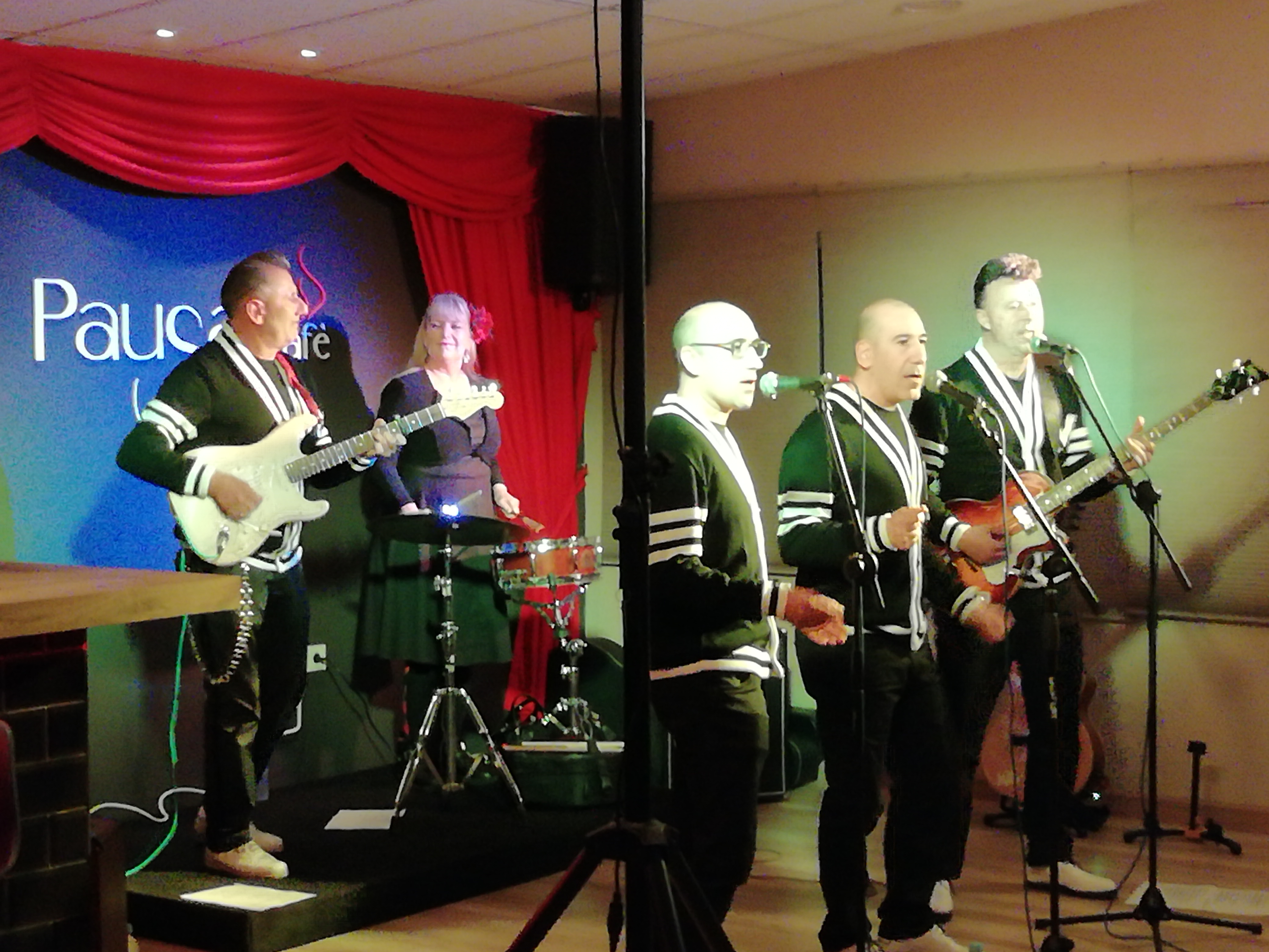 The Mallor-kings is a doo wop band from the island of Mallorca, Spain.